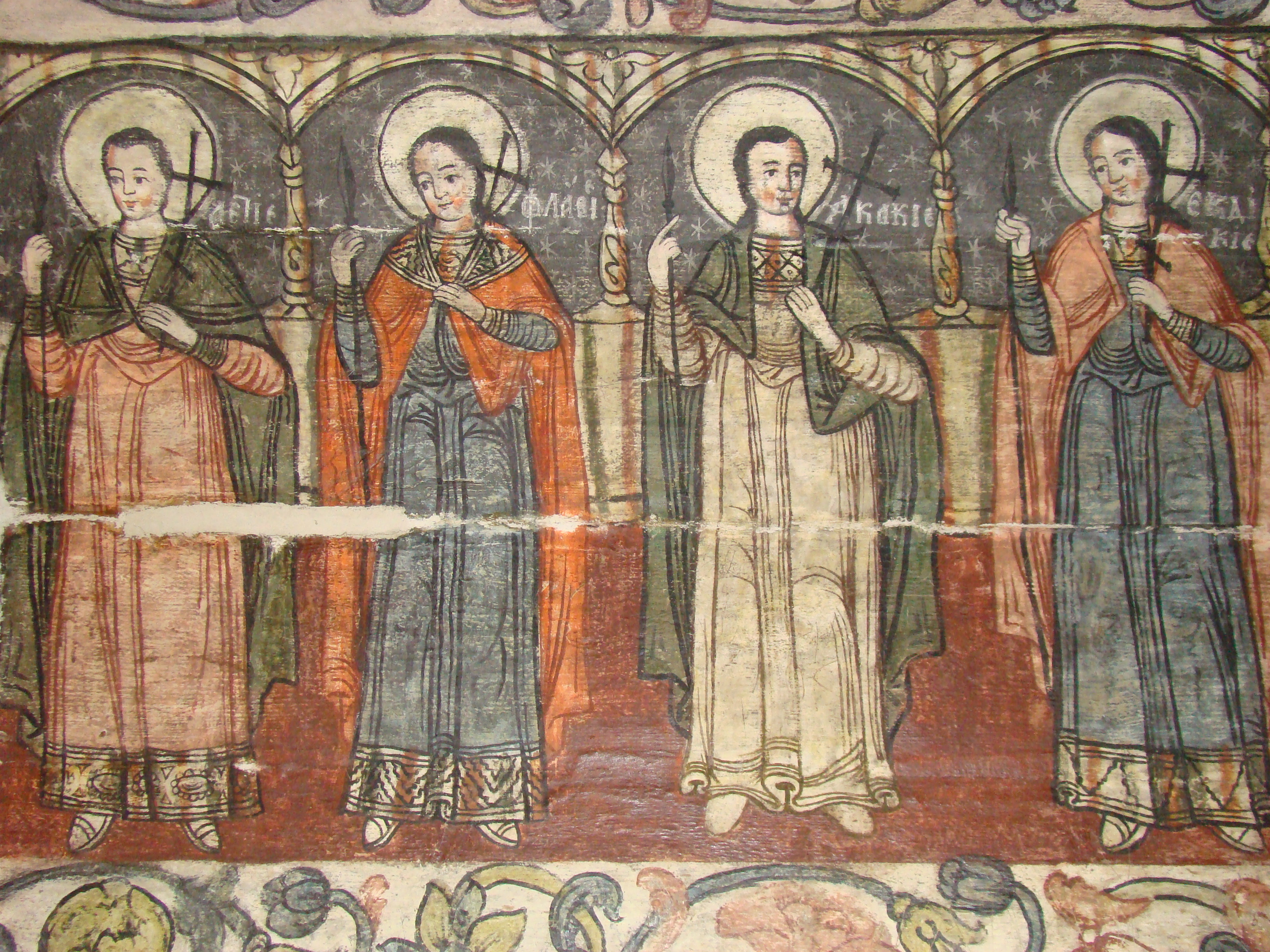 Wooden church in Bica, Cluj countyRomână: Biserica de lemn din Bica, județul Cluj